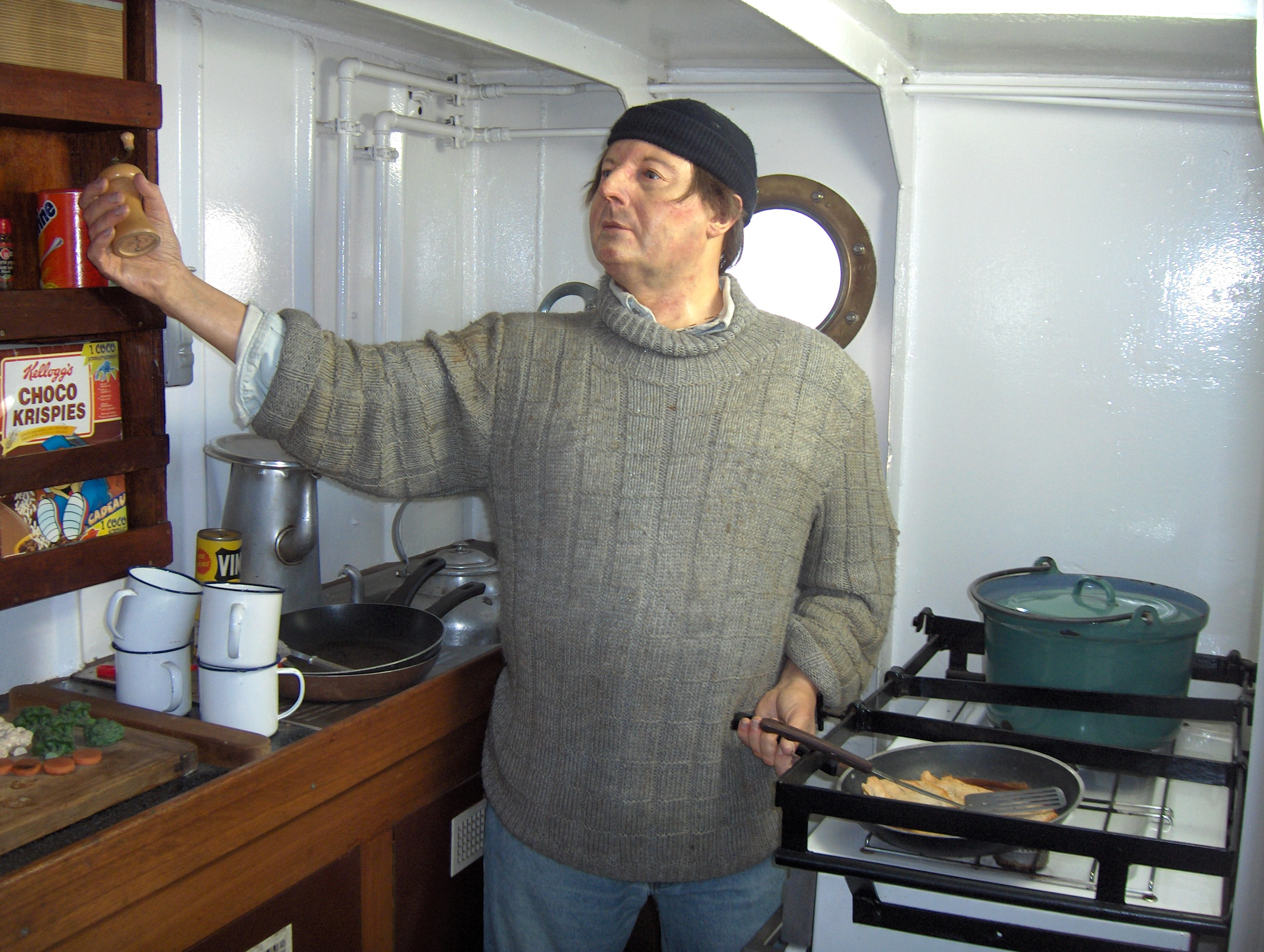 Galley - the O129.Amandine is a former trawler fishing in Icelandic waters. It now has become a maritime museum in Oostende, Belgium